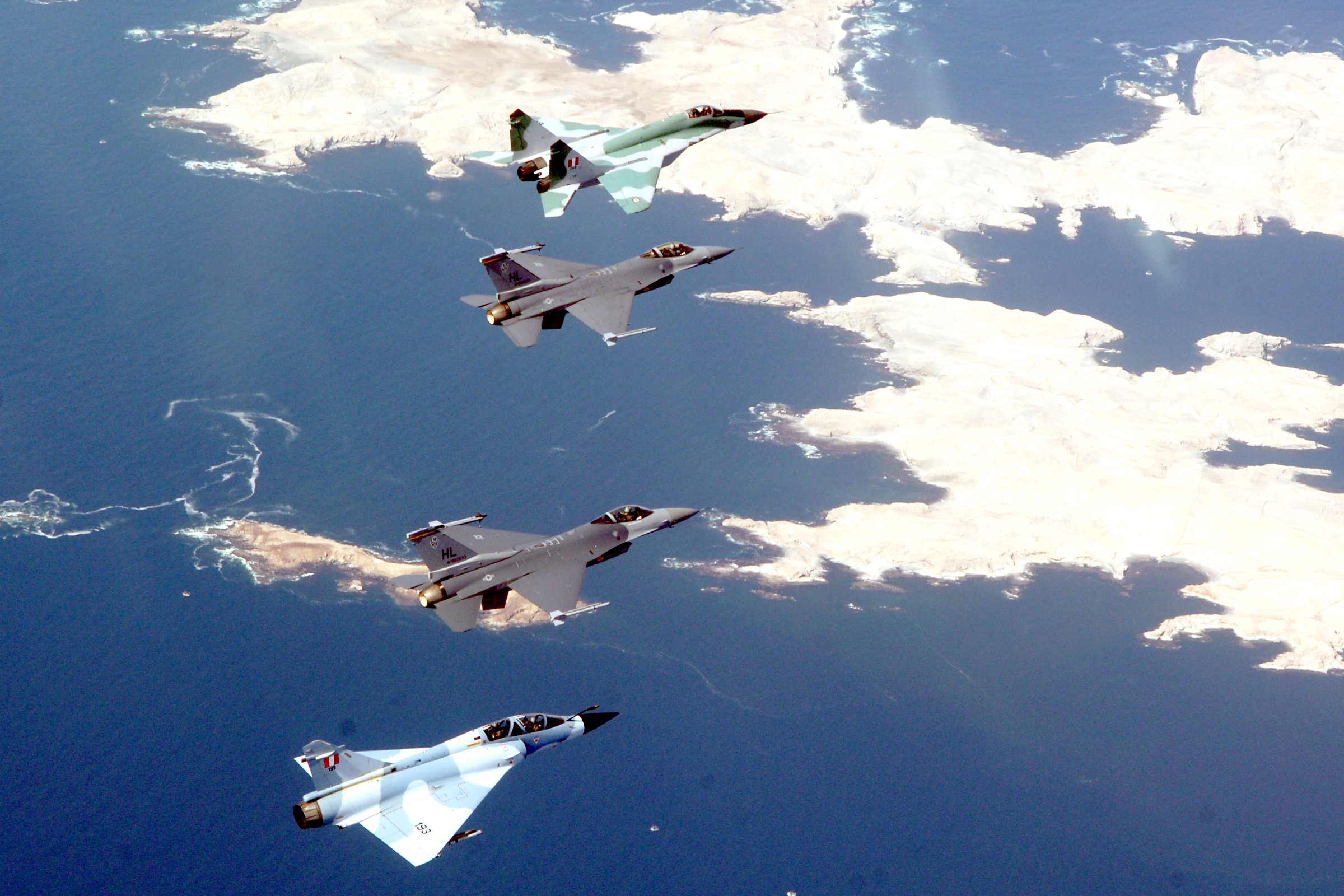 Two F-16 Fighting Falcons form up with a Peruvian MiG-29 and Mirage 2000 during dissimilar air combat training Feb. 15 as part of Falcon and Condor 2007, a joint exercise between the U.S. and Peruvian Air Forces. The exercise allows the U.S. military to build relationships with military and civilian leaders of Peru. The F-16s are from the 34th Fighter Squadron at Hill Air Force Base, Utah. (U.S. Air Force photo/Tech. Sgt. Eric Kreps)